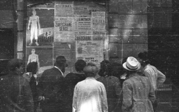 Month before WarsawUprising: People reading an order for 100 thousands volunteers to report for digging ditches around Warsaw.